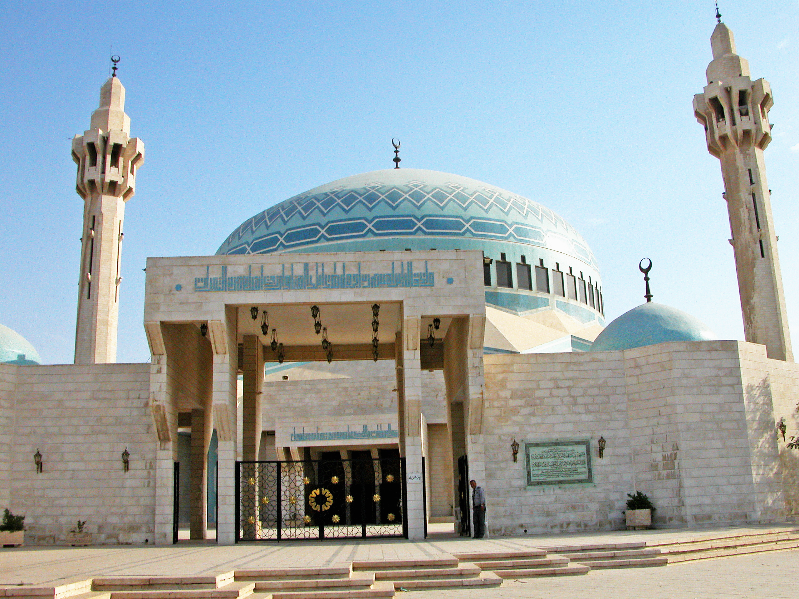 King Abdullah Mosque, Amman, Jordan.